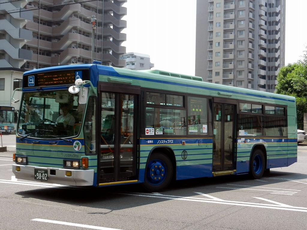 Sendai city bus Isuzu Cubic nonstep bus (KC-LV832L) from Osaka city bus